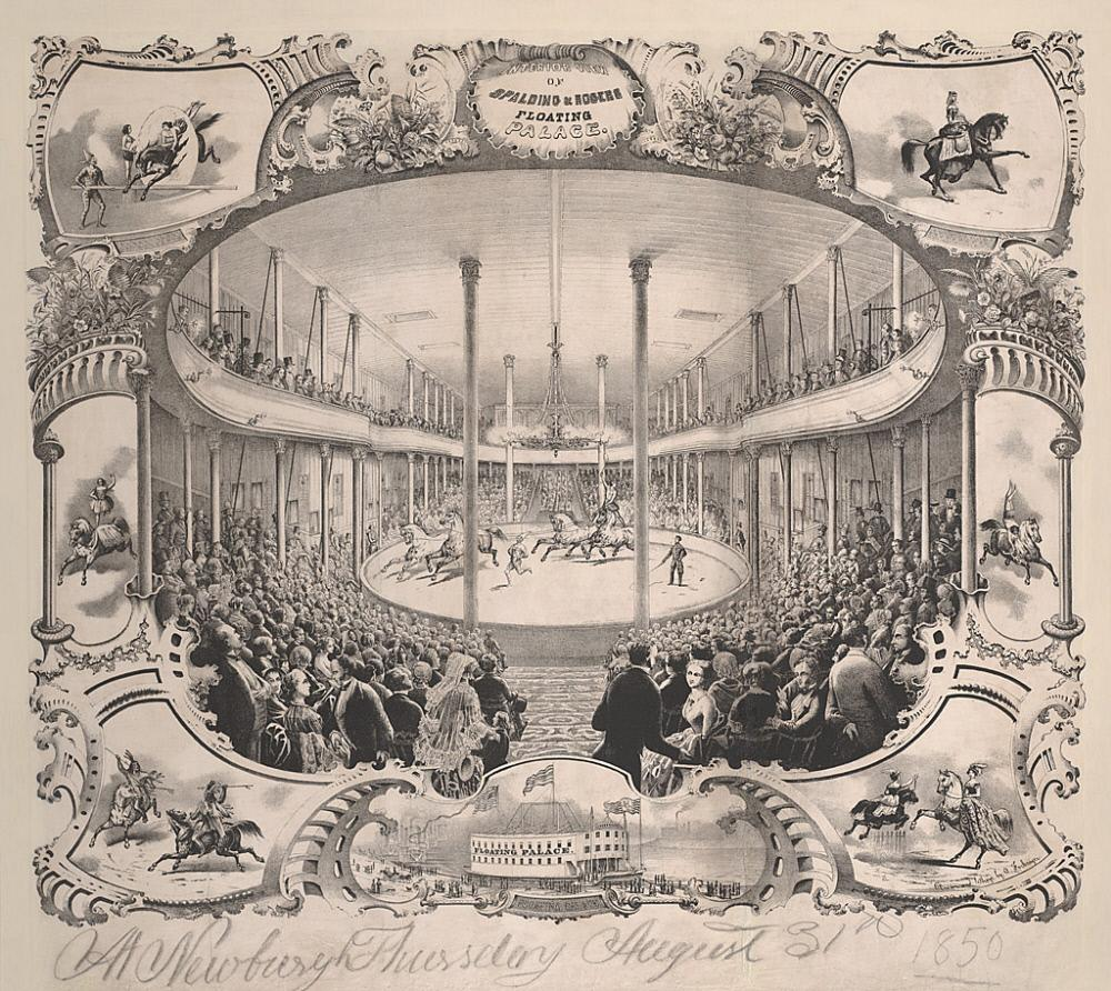 The interior of Spalding & Rogers the Floating Palace showboat (1854)